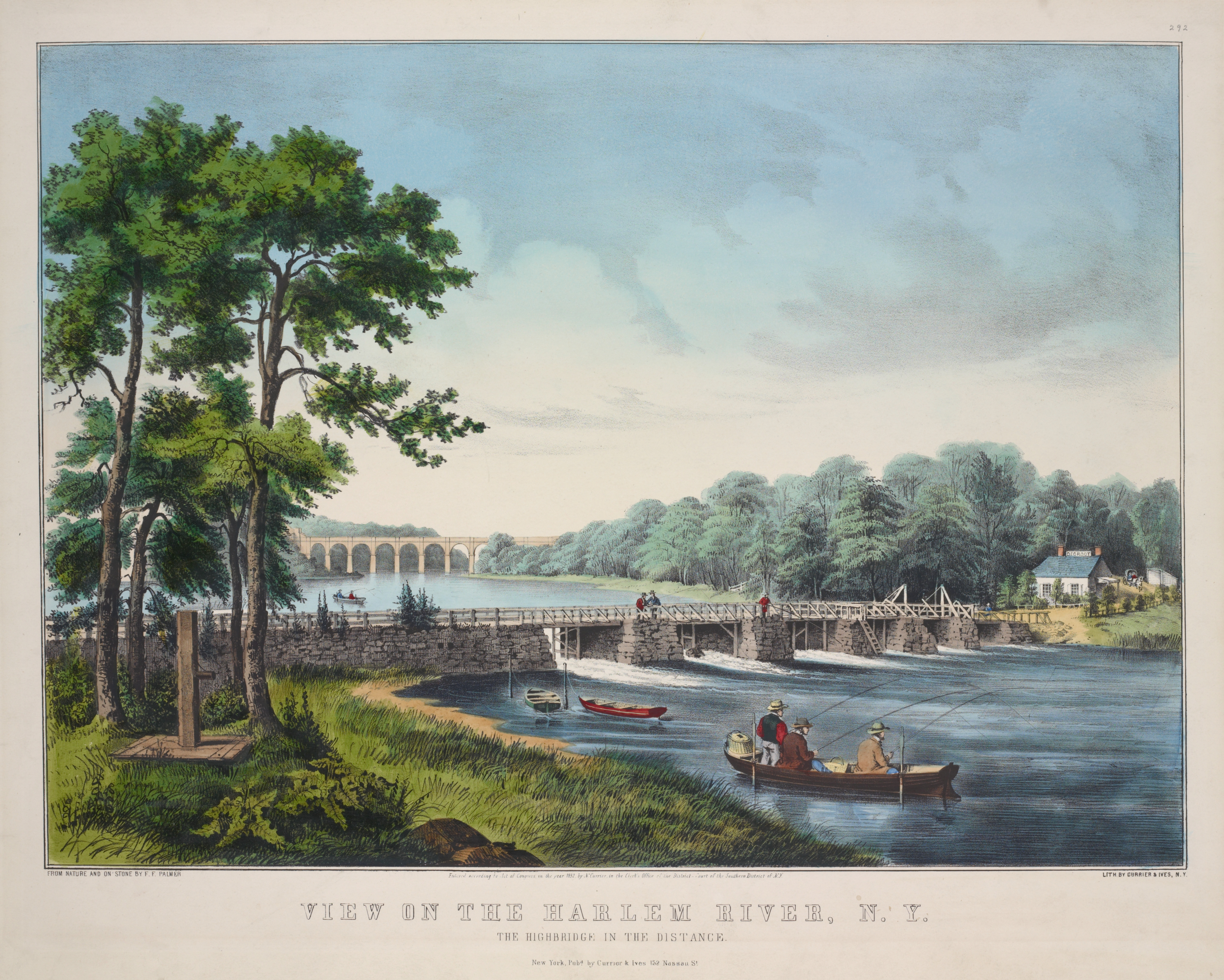 Currier & Ives print, designed by E. F. Stone, of "View on the Harlem River," 1852. The High Bridge is in the distance. From nature and on stone. Courtesy of the New York Public Library Digital Collection.